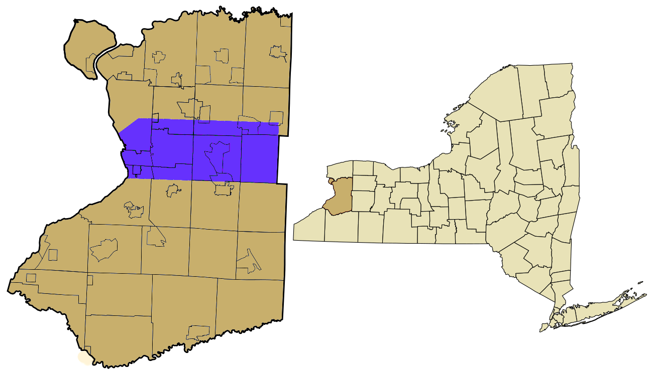 Locator map of the Buffalo Creek Reservation in Erie County, NY (purple/blue area)